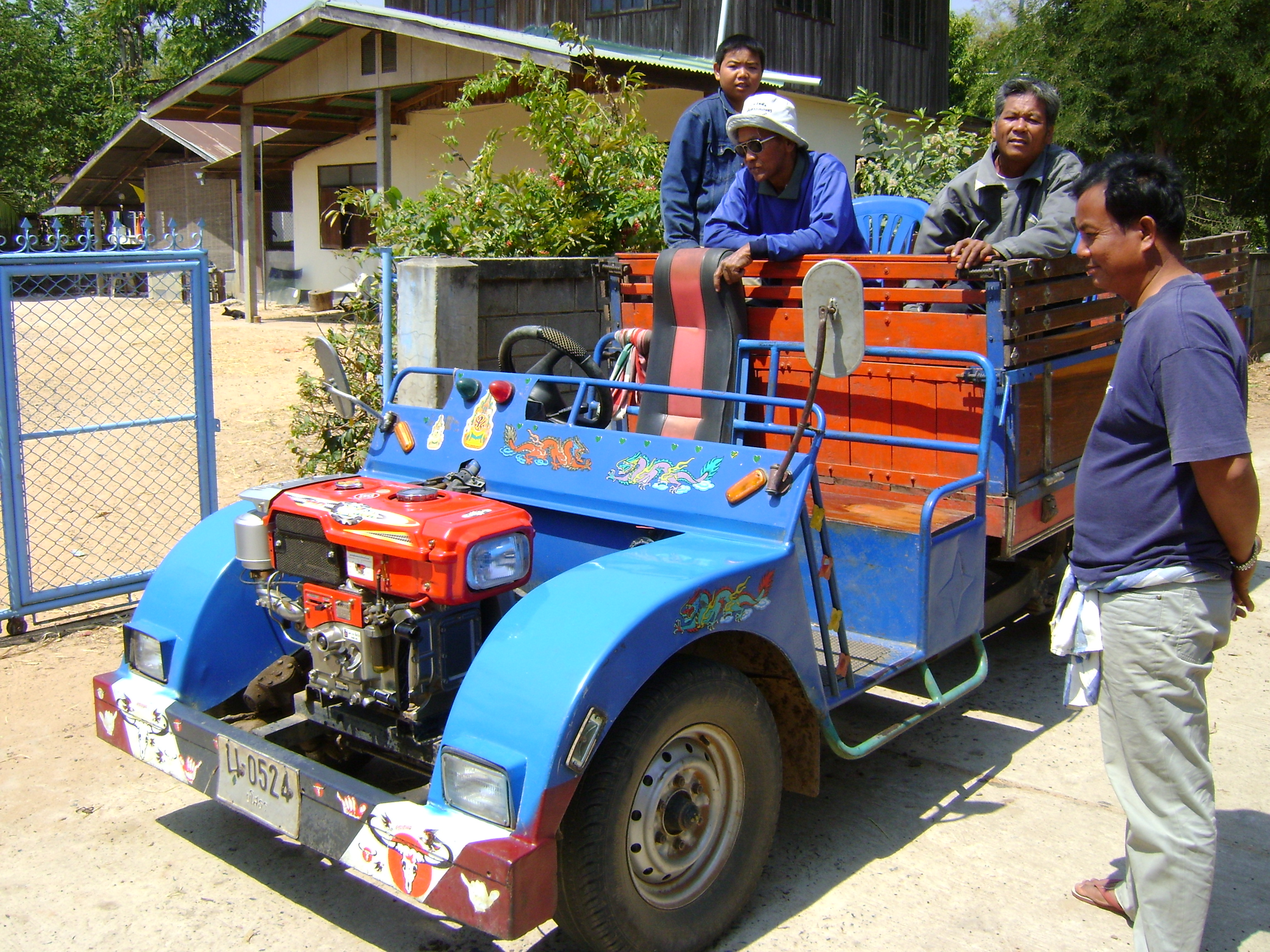 Home-made truck belt-drive by 8-kw Diesel agricultural engine